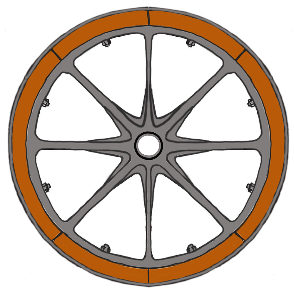 Roue d' artillerie système Arbel